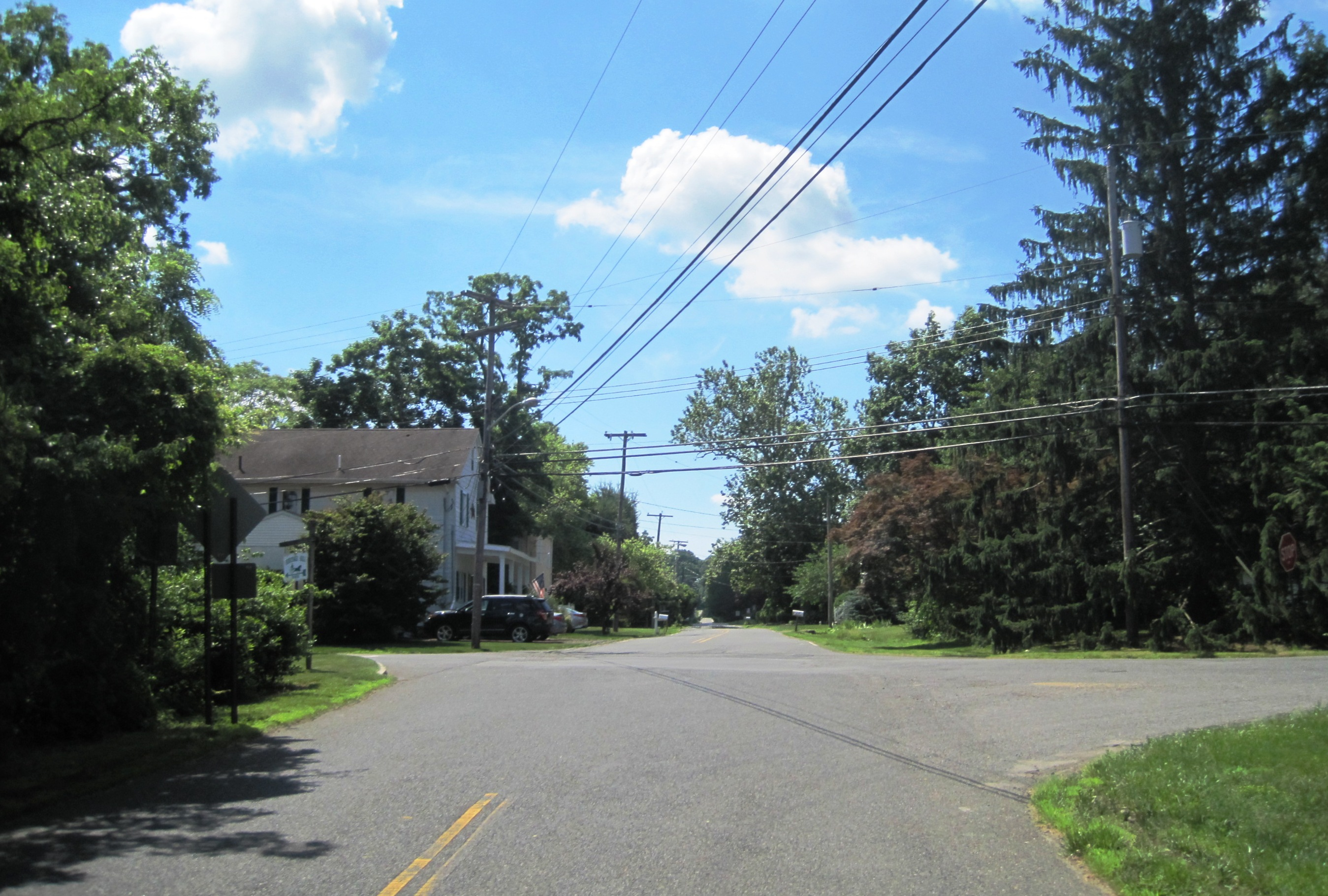 Photo of the unincorporated community of Ellisdale, New Jersey within North Hanover Township, Burlington County and Upper Freehold Township, Monmouth County. Photo taken on southbound Province Line Road at Hill Road / Ellisdale Road.